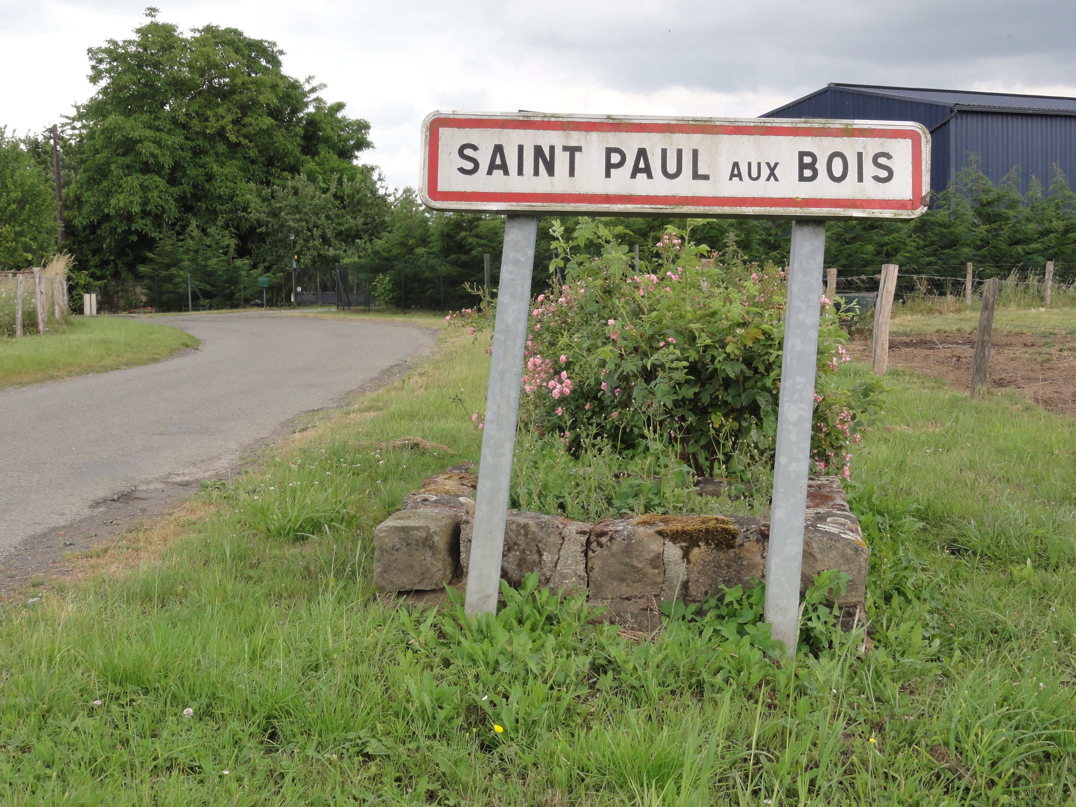 Saint-Paul-aux-Bois (Aisne) city limit sign